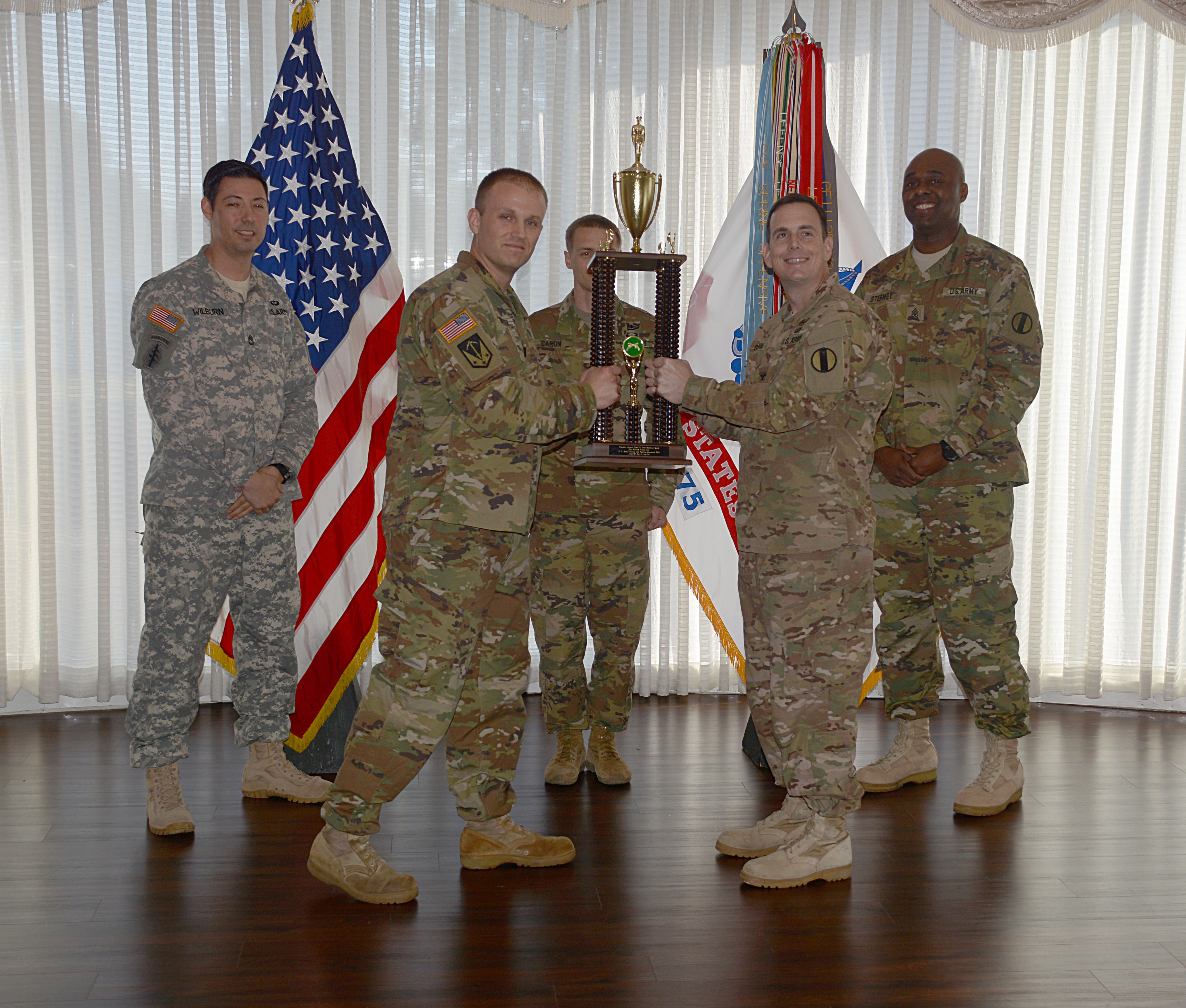 Sgt. 1st Class Ernest Wilburn, 217th Military Police Detachment sergeant; Capt. Andrew Widemeyer, 217th MP Detachment commander; Sgt. 1st Class Theodore Caron, 544th MP Detachment kennel master; Col. Andrew Sullivan, Training and Doctrine Command provost marshal; and Sgt. Maj. Shawn Stepney, TRADOC provost sergeant major, pose with the Brig. Gen. David H. Stem award during a ceremony Friday at the Lee Club. The award honors the most outstanding TRADOC MP unit, and Sullivan and Stepney presented the trophy to the units on behalf of Gen. David Perkins, commanding general, TRADOC, and Command Sgt. Maj. David Davenport, TRADOC CSM.